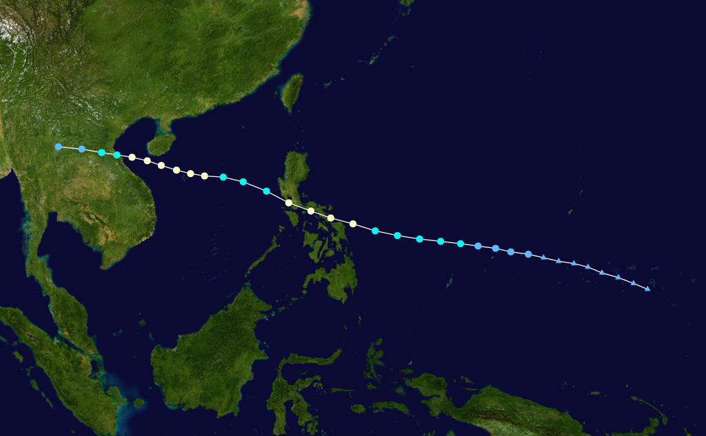 Typhoon Dan 1989 track. Uses the color scheme from the Saffir-Simpson Hurricane Scale.